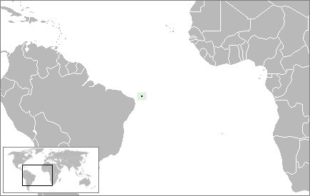 Location map of the Fernando de Noronha Archipelago.